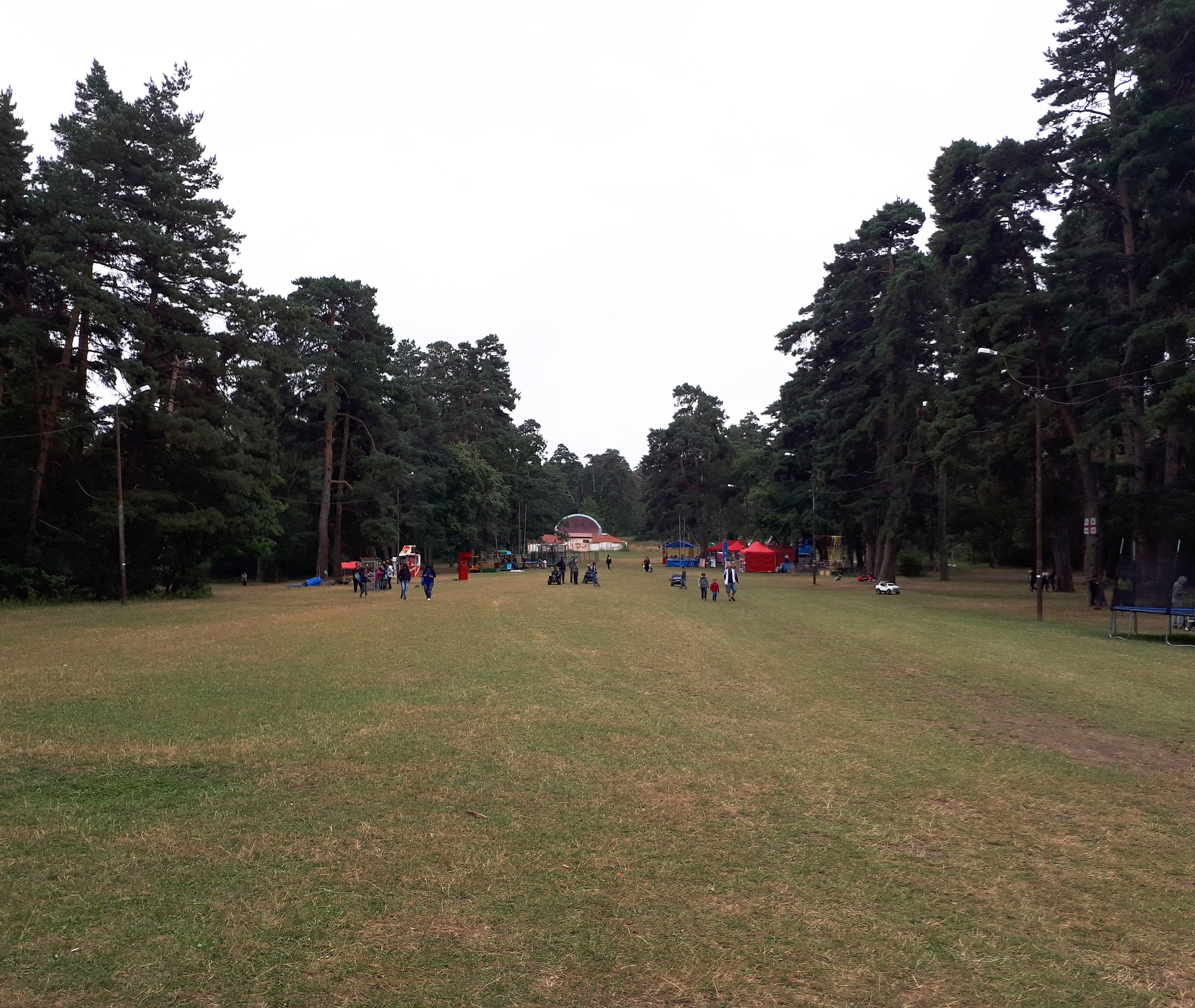 Manglisi Park, Manglisi, Georgia